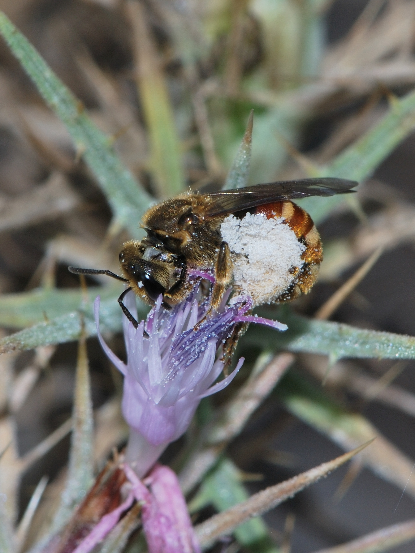 Lasioglossum nigripes pharaonis, female foraging on Carthamus tenuis, Mount Carmel, Israel, August 19, 2011.